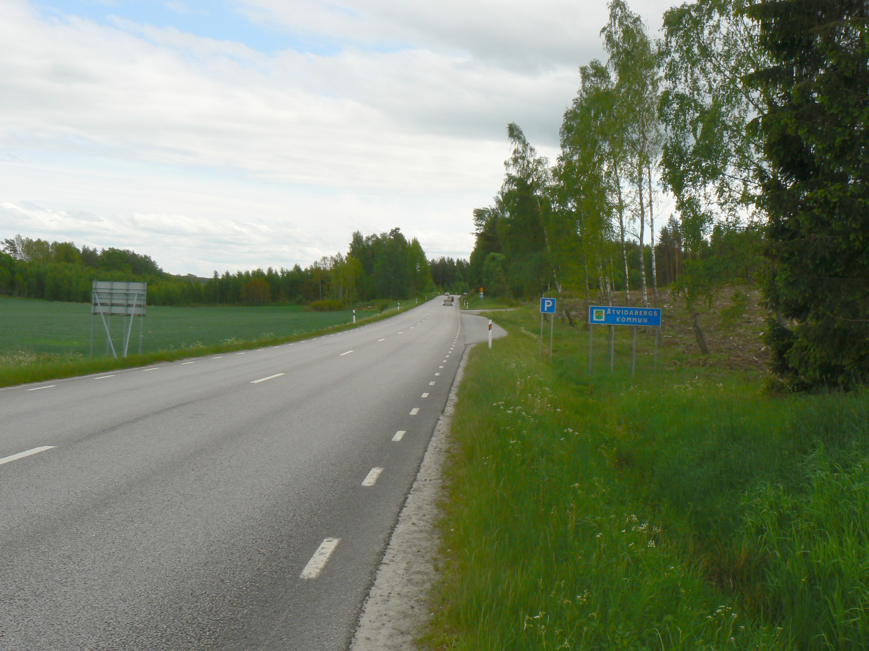 Swedish National Road 35 at the municipal boarder between Linköping and Åtvidaberg